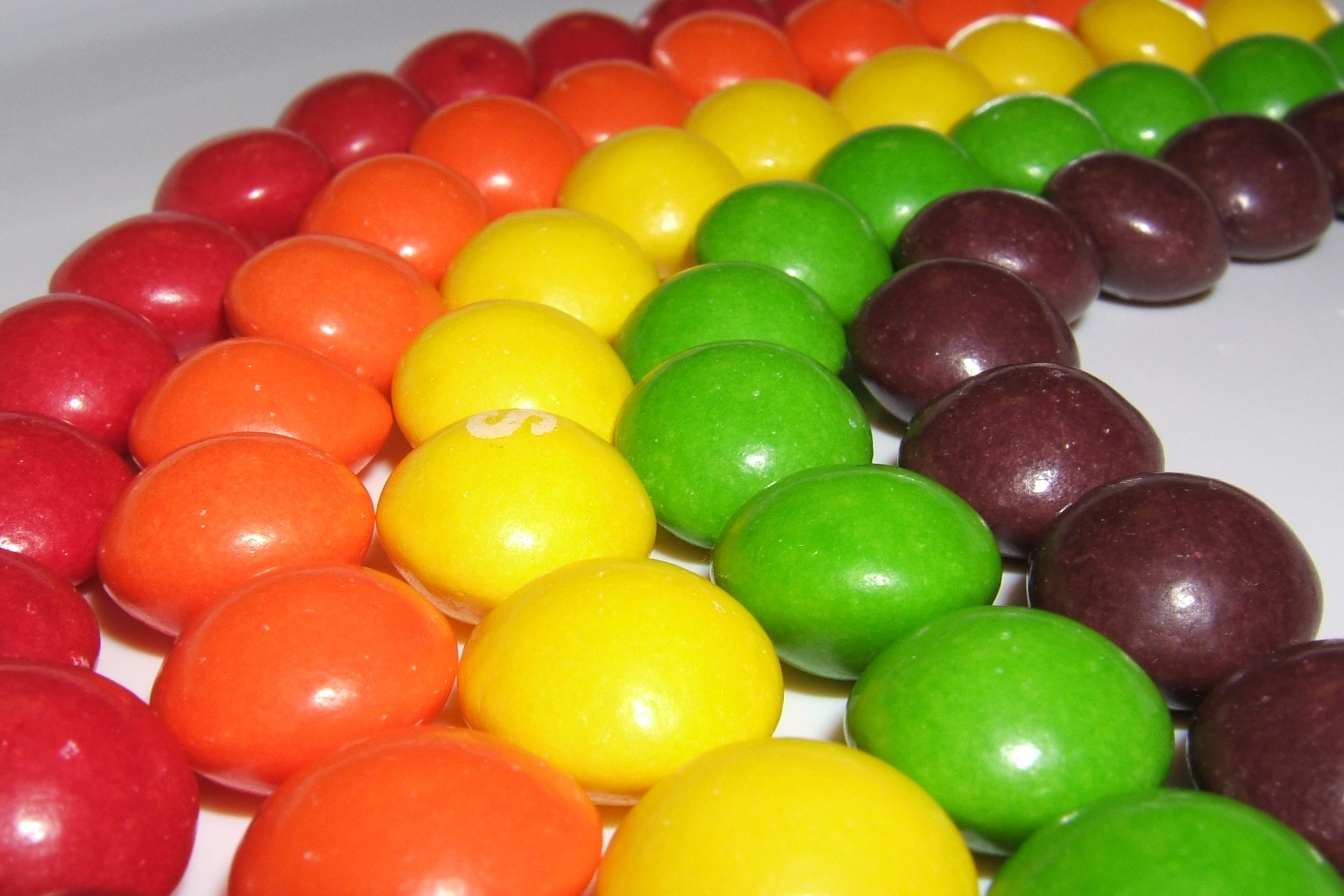 This is for the "CANDY" theme in The World Through My Eyes